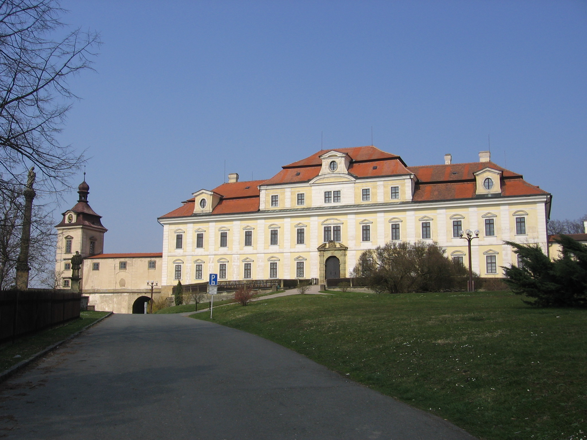 Castle in Rychnov nad Kněžnou, Hradec Králové Region, Czech Republic